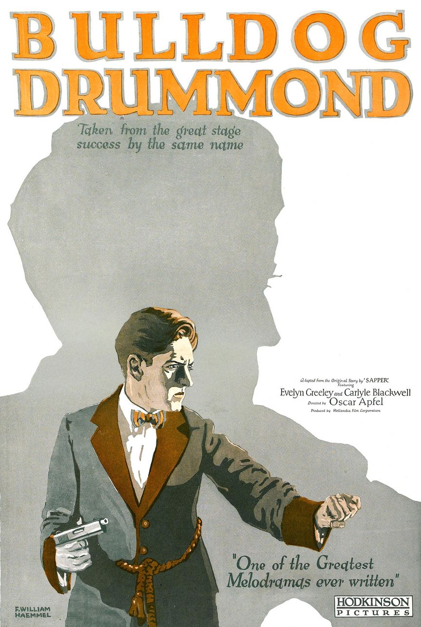 Movie poster for Bulldog Drummond (1922).